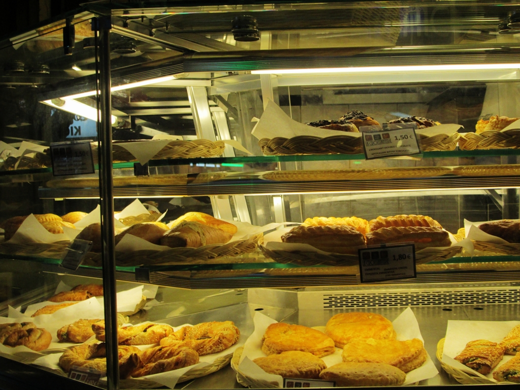 Croissanterie of old part of Nicosia REPUBLIC OF CYPRUS